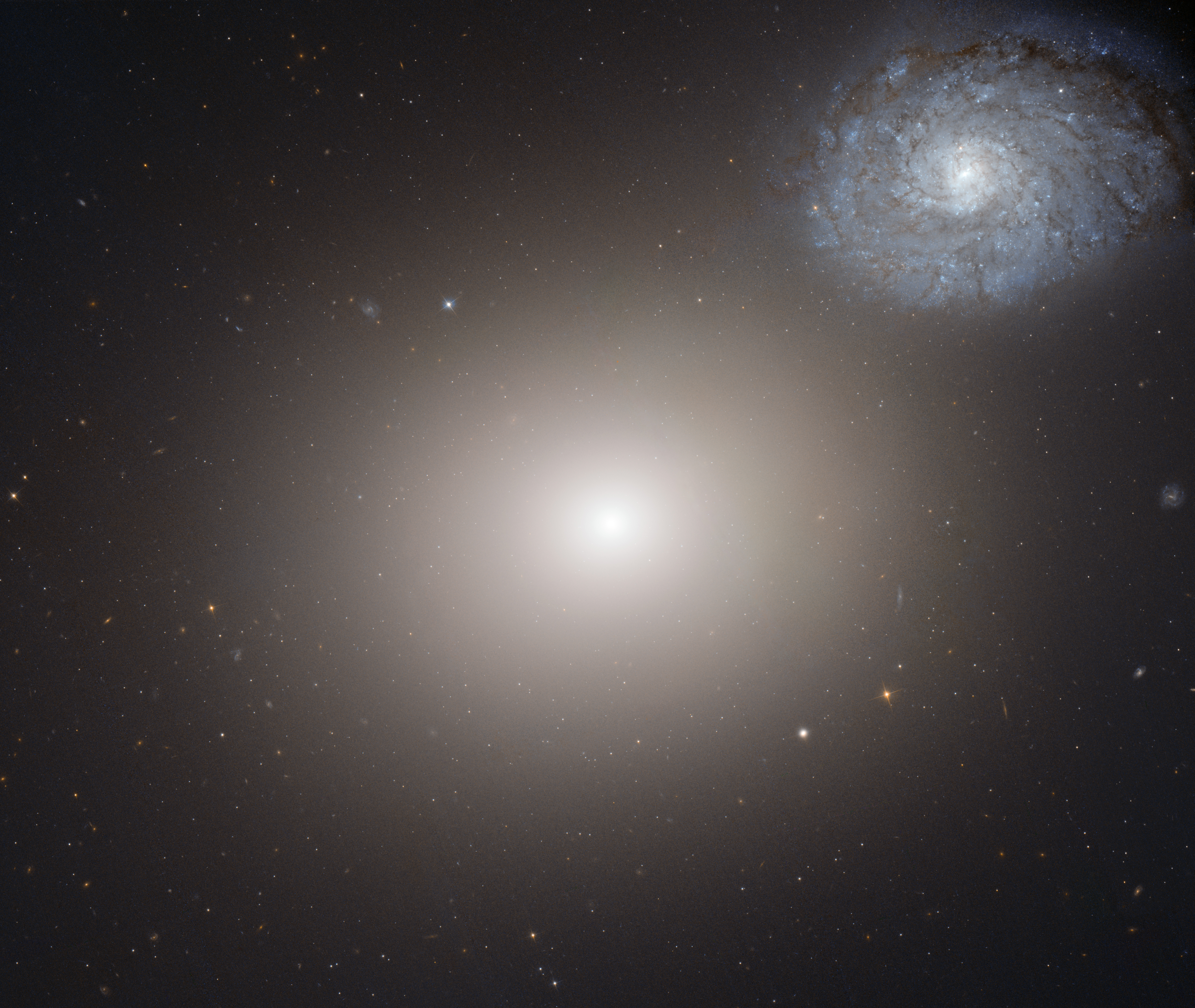 This NASA/ESA Hubble Space Telescope image shows the peculiar galaxy pair called Arp 116. Arp 116 is composed of a giant elliptical galaxy known as Messier 60, and a much smaller spiral galaxy, NGC 4647. Astronomers have long tried to determine whether these two galaxies are actually interacting. Although they overlap as seen from Earth, there is no evidence of new star formation, which would be one of the clearest signs that the two galaxies are indeed interacting. However, recent studies of very detailed Hubble images suggest the onset of some tidal interaction between the two. Also included in the image, just below and to the right of M60, is their even smaller neighbour M60-UCD1. M60-UCD1 is a very tiny galaxy, just 1/500th of the diameter of our Milky Way, that lies about 50 million light-years away. Despite its size, it is pretty crowded, with about 140 million stars crammed into its diameter of just 300 light-years. An international team of astronomers have found a supermassive black hole at the centre of M60-UCD1 with the mass of 20 million Suns.